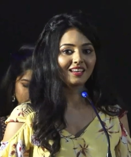 Vidhya during 'Thadam' audio launch